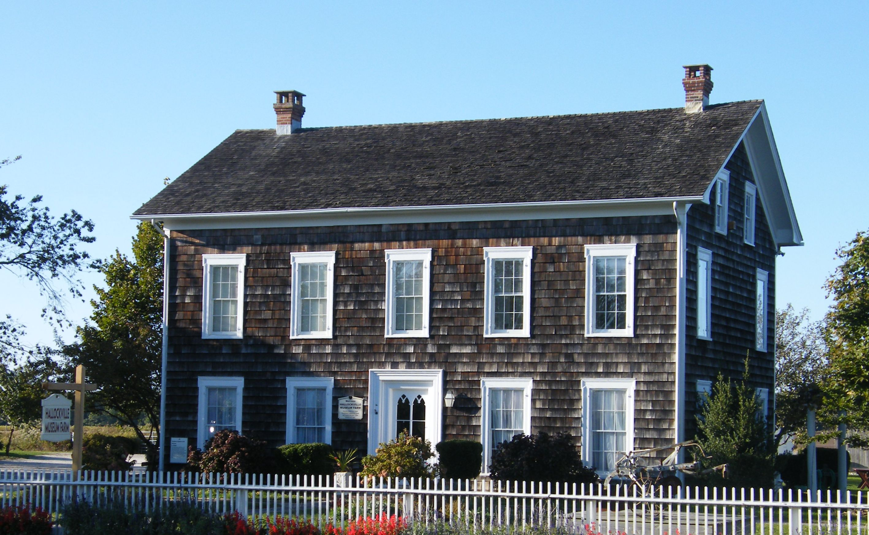 Hallock Homestead Jamesport, New York